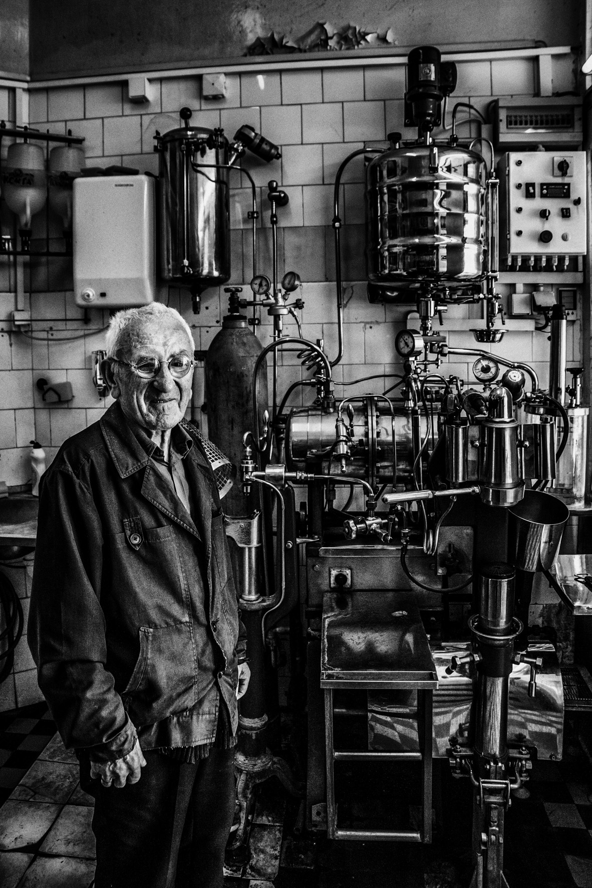 The Sodamaker 1